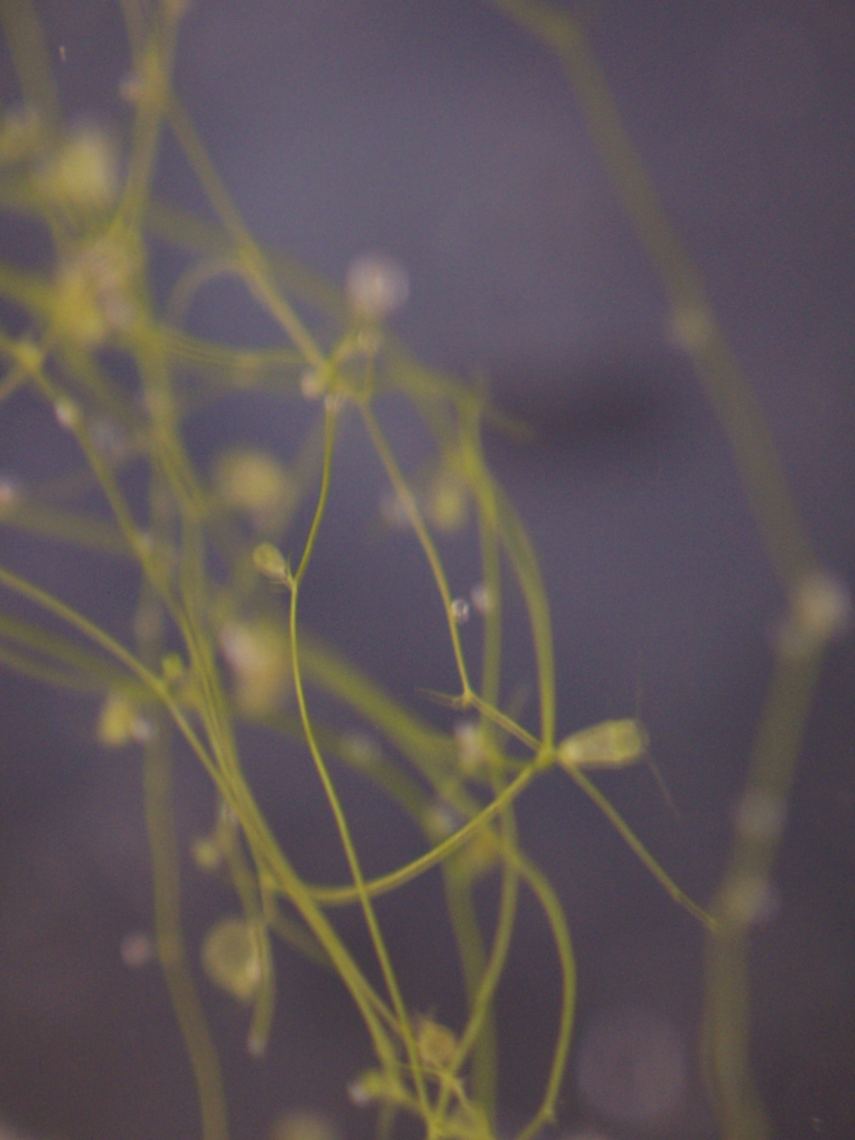 Utricularia gibba